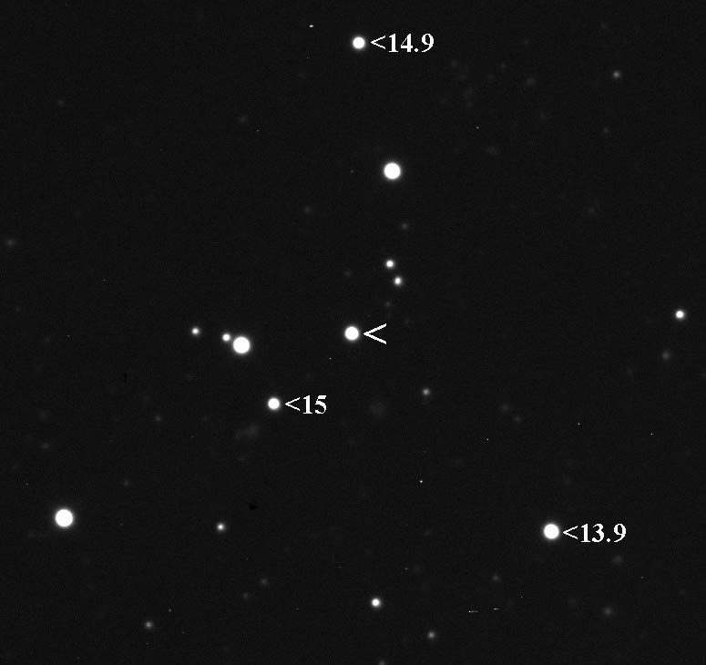 5 minute exposure of asteroid 153 Hilda with a 24" telescope. 153 Hilda is apparent magnitude 14.2 in this image taken at 2009-12-16 02:45 UT. Hilda is 170km in diameter and in a 2:3 resonance with Jupiter.